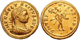 TACITUS. 275-276 AD. AV Heavy Aureus (6.56 gm). Tripolis mint. IMP C M CL TACITVS AVG, laureate, draped, and cuirassed bust right P M TB P VI COS II P P, Mars walking right, holding spear and trophy; pellet in exergue. Cf. Estiot, "Aurélian et Tacite: Monnaies d'or et faux modernes," BSFN 9 (1990), fig. 4 (same obverse die).